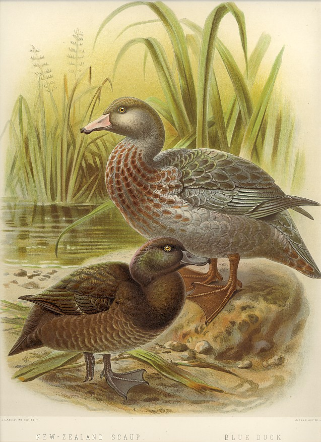 New Zealand Scaup/Black teal (Aythya novaeseelandiae) and Blue Duck (Hymenolaimus malacorhynchos).